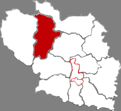 Location of Qin county in Changzhi City, China